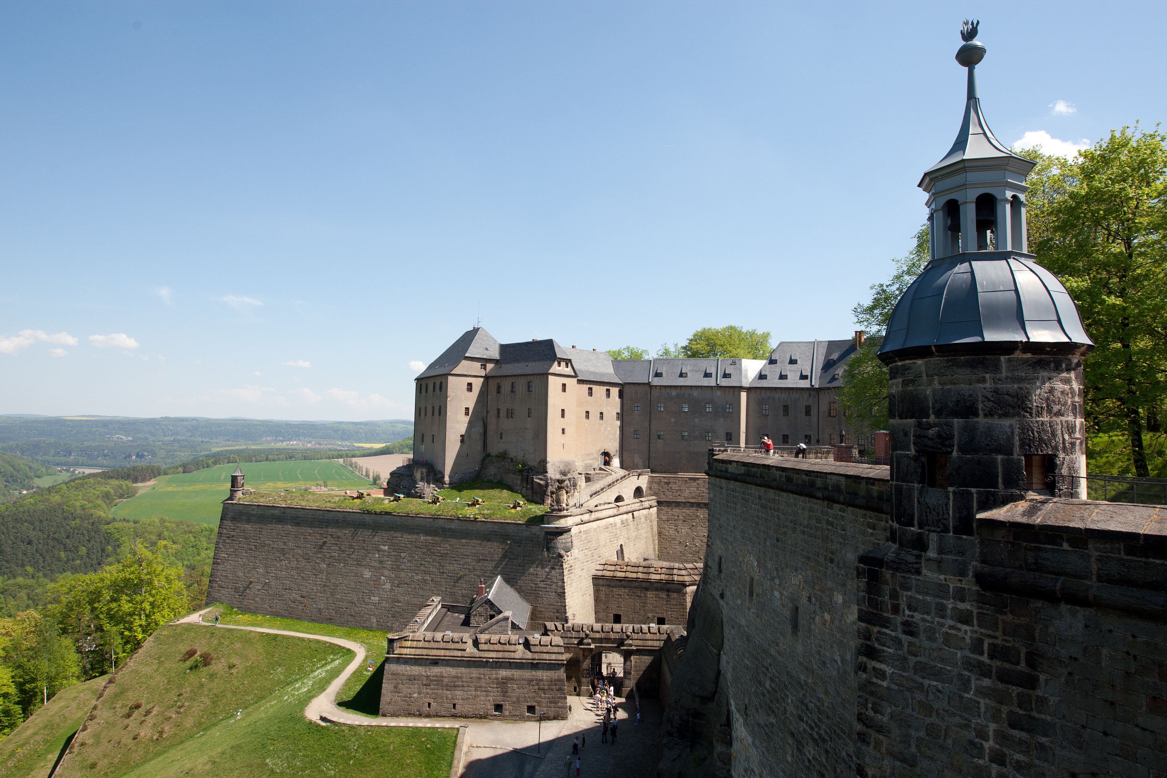 Georgs castle, fortress Koenigstein